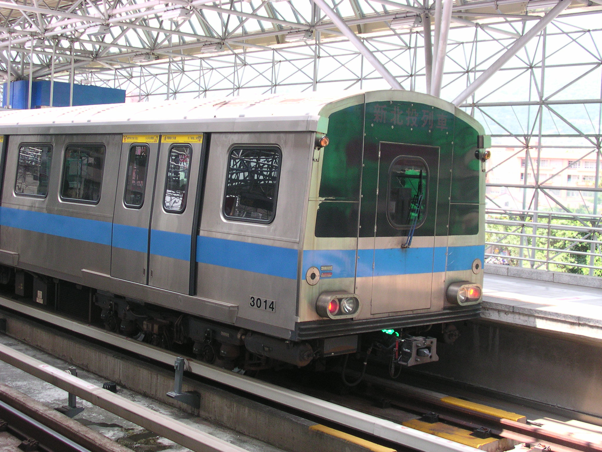 Taipei MRT Train. Car type: C301 as 3-car set. Vehicle No.:3014